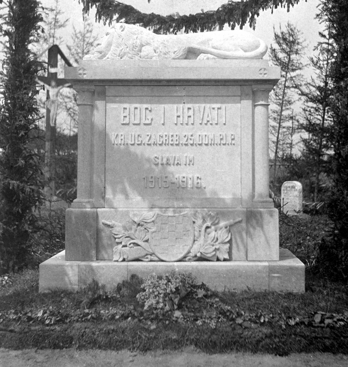 1916 memorial of 25th Croatian infantry regiment